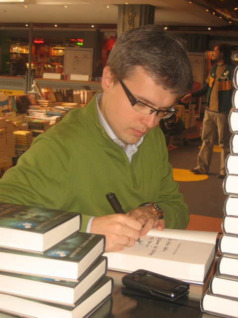 International bestselling thriller author Juan Gómez-Jurado (Madrid, Spain, 1977) in a booksigning done in Valencia last year.